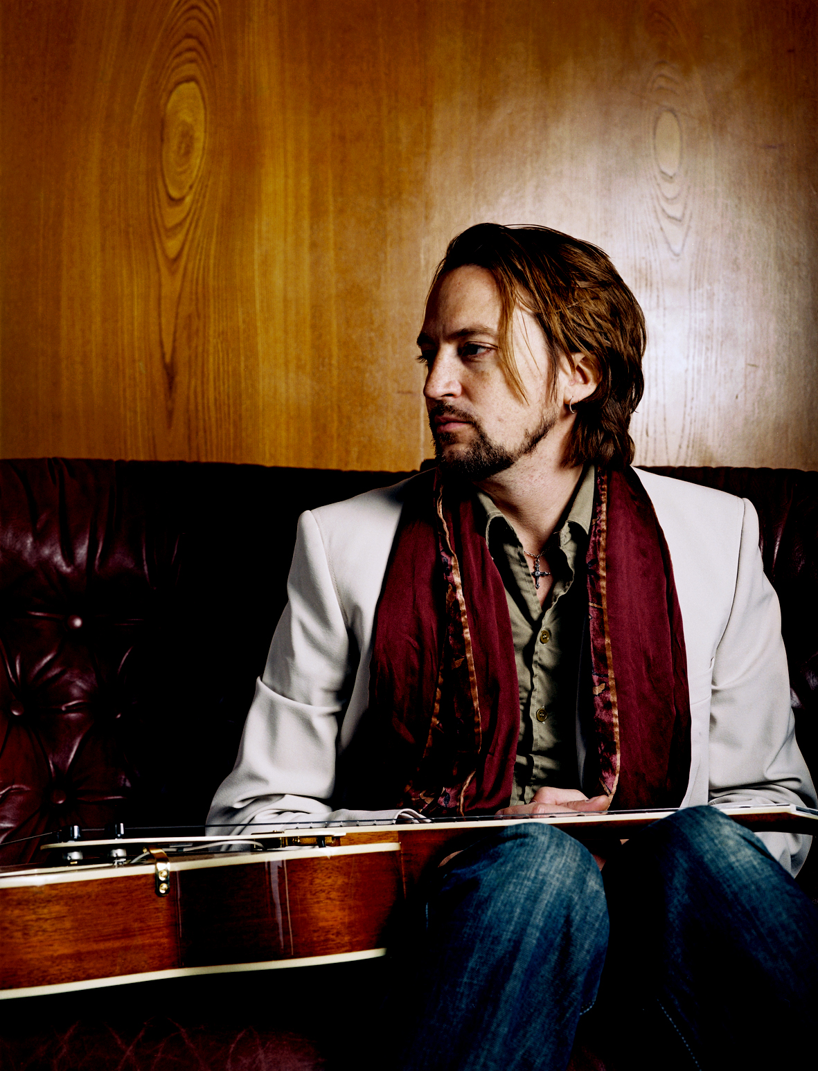 a nice picture o f wille